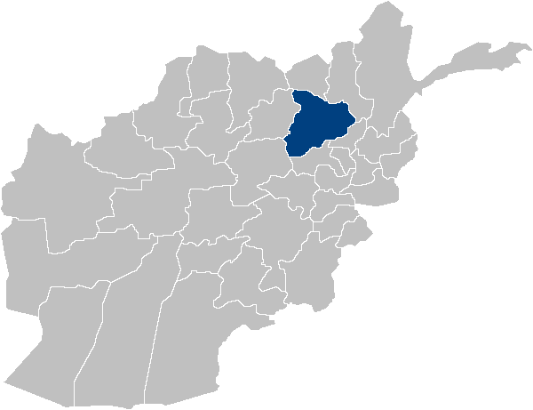 Location map for Baghlan Province in Afghanistan. Original map source: Image:Afghanistan_provinces_blank.png